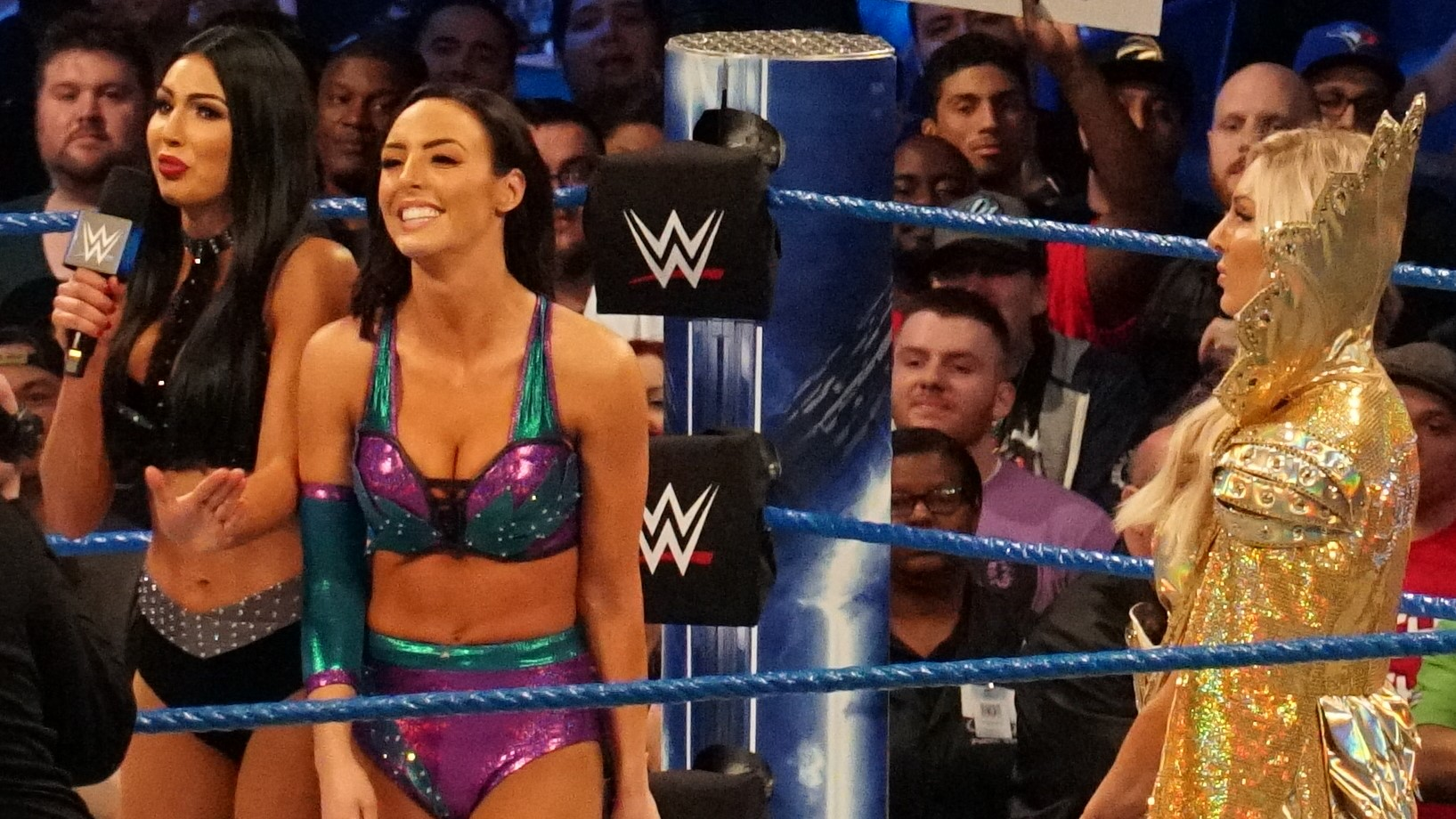 The IIconics interrupt Charlotte Flair in their SmackDown debut in April 2018.